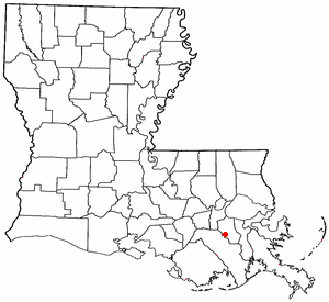 Locator map of Bayou Gauche — in Saint Charles Parish, Louisiana. A census-designated place (CDP), and bayou geographic feature.